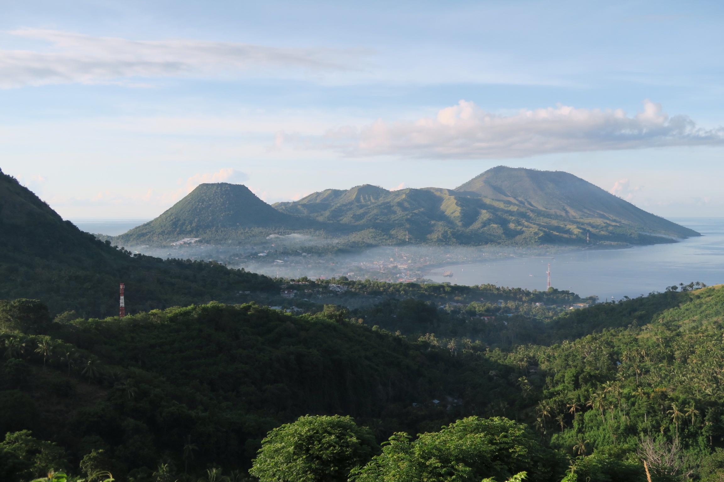 Gunung Iya (Mount Iya) and Ende seen from the north in Flores, Indonesia.